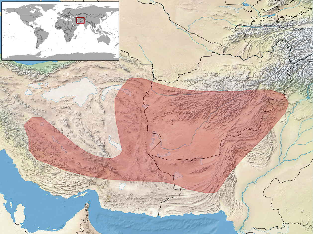 geographic distribution of Laudakia microlepis (Native: Afghanistan; Iran, Islamic Republic of; Pakistan)